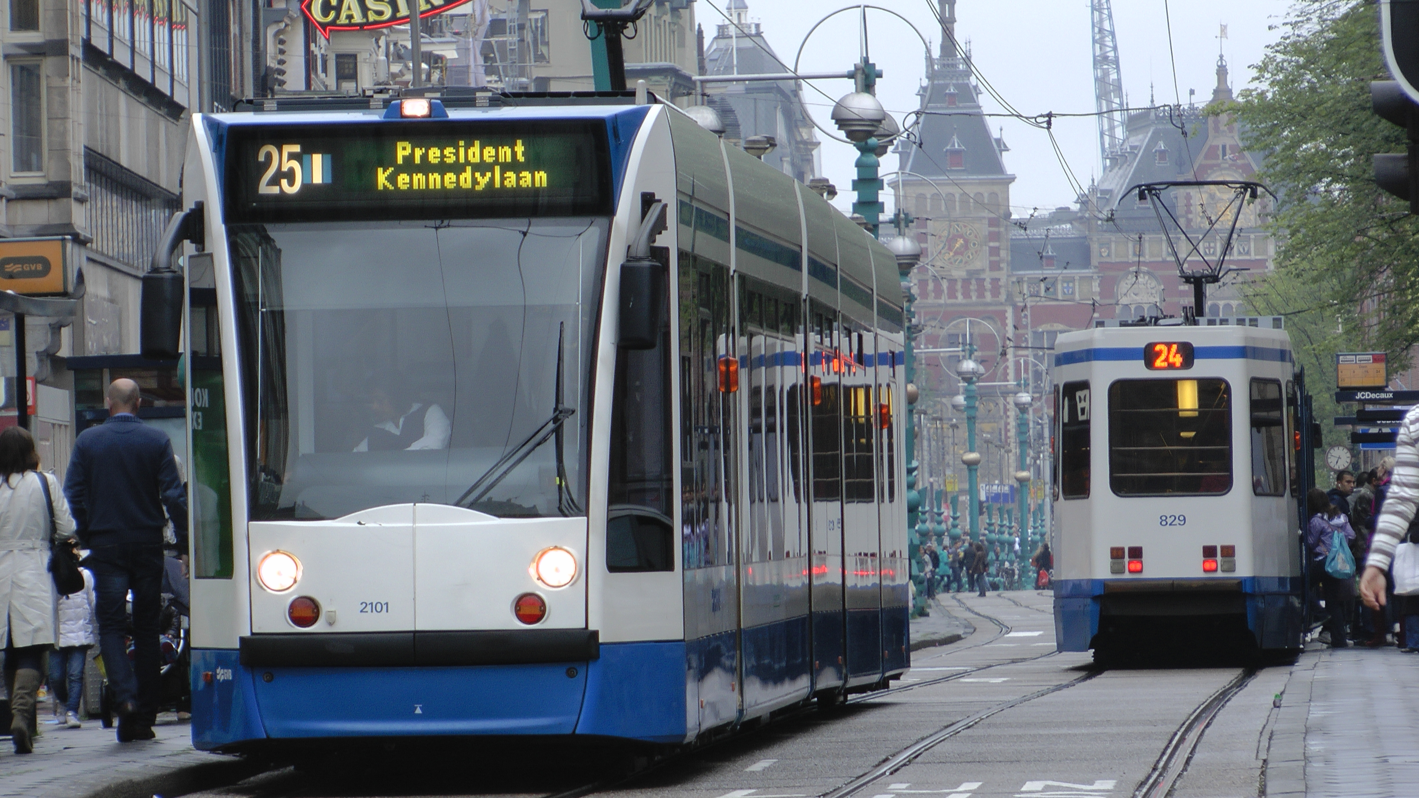 Tram 25 at the Damrak, Amsterdam, 2011.